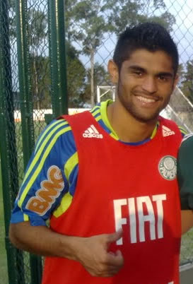 Luan, brazilian footballer who plays for Palmeiras, in 2011.